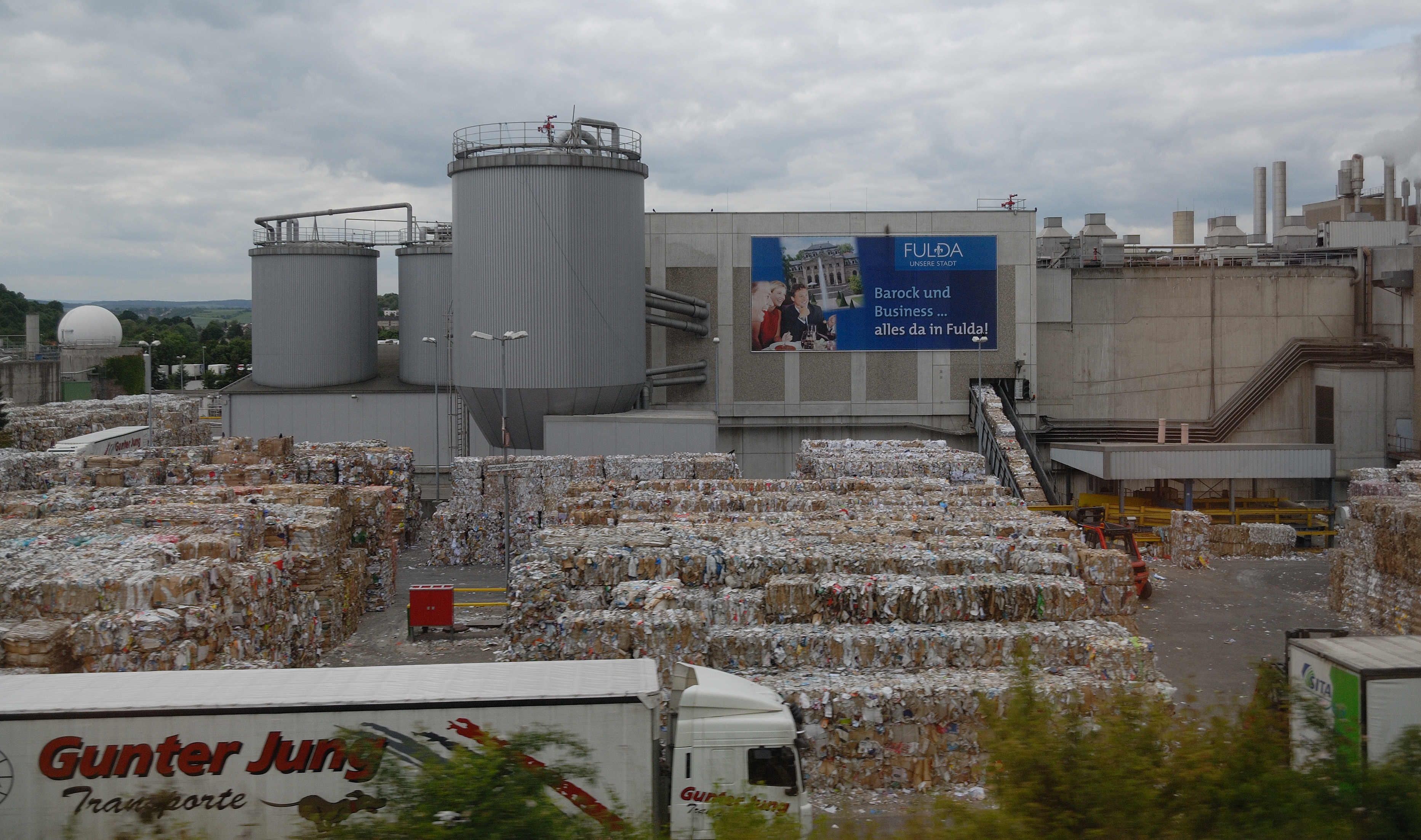 Adolf Jass GmbH in Fulda, a producer of corrugated fiberboard from recycled paper. The yearly capacity is about 500,000 t. Image taken from a moving ICE train.